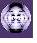 The X-ray diffraction pattern of DNA, courtesy of the National Institute of Health